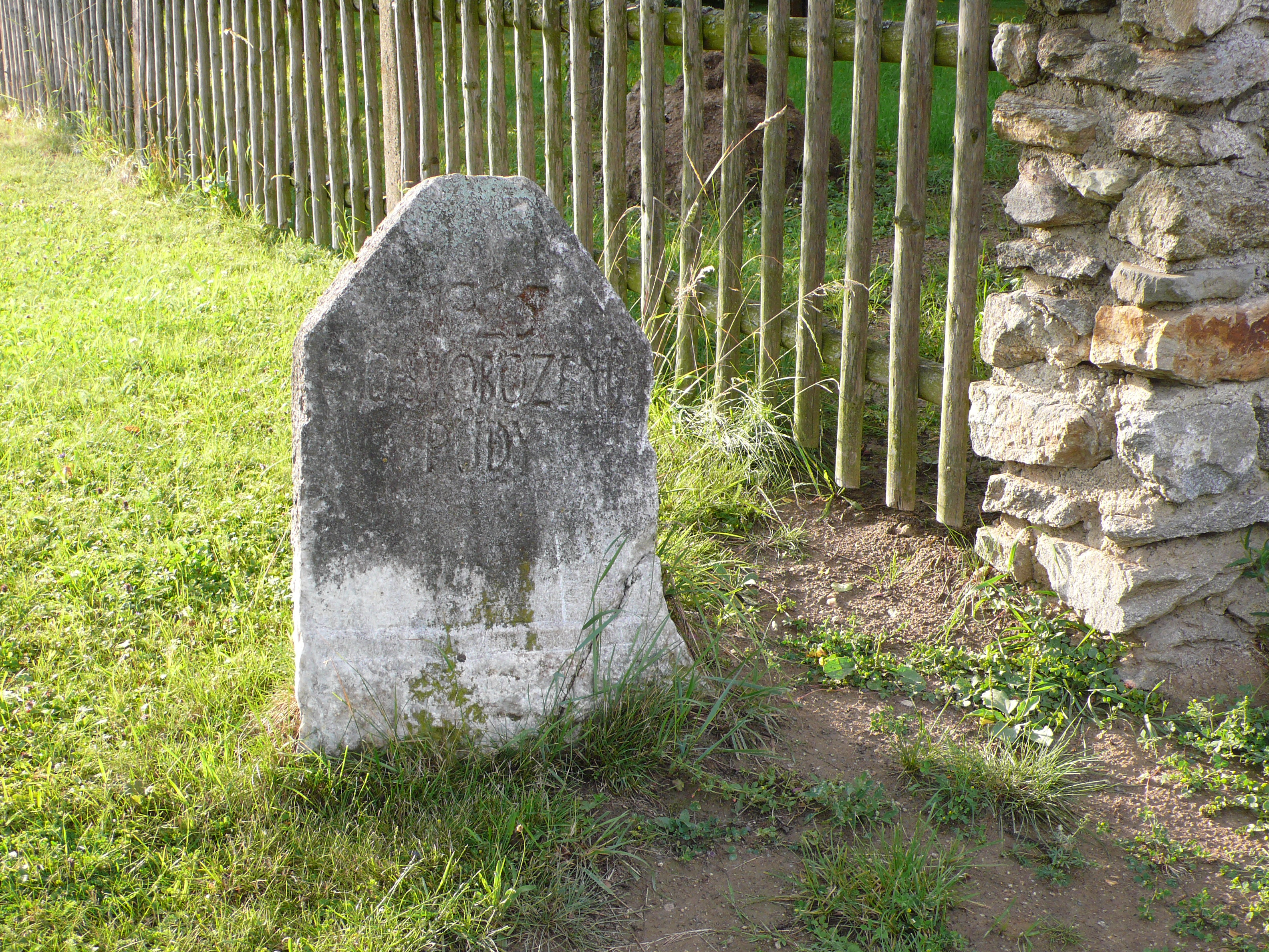 Monument of the land reform in the Czechoslovakia from 1925